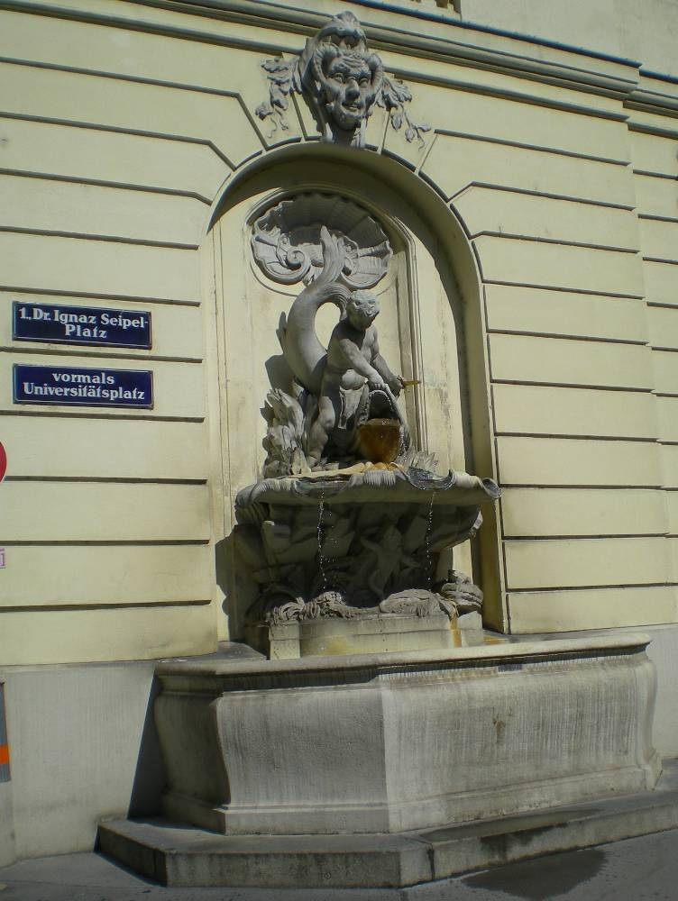 Austria, Vienna, University of Vienna